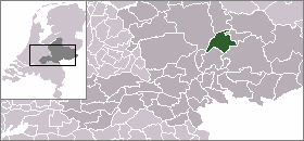 Locator map of Dutch municipalities in Gelderland (LocatieBrummen.png)